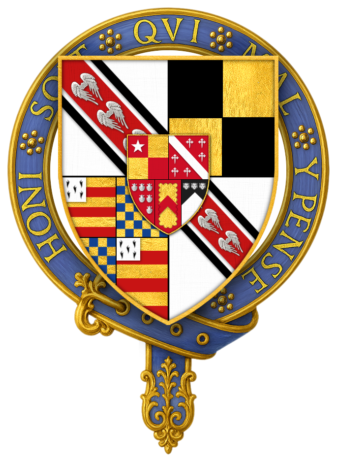 Coat of arms of Sir Anthony Wingfield, KG See Sir Anthony's stall plate within St. George's Chapel. The plate is currently viewable online at the Royal Collection Trust website.